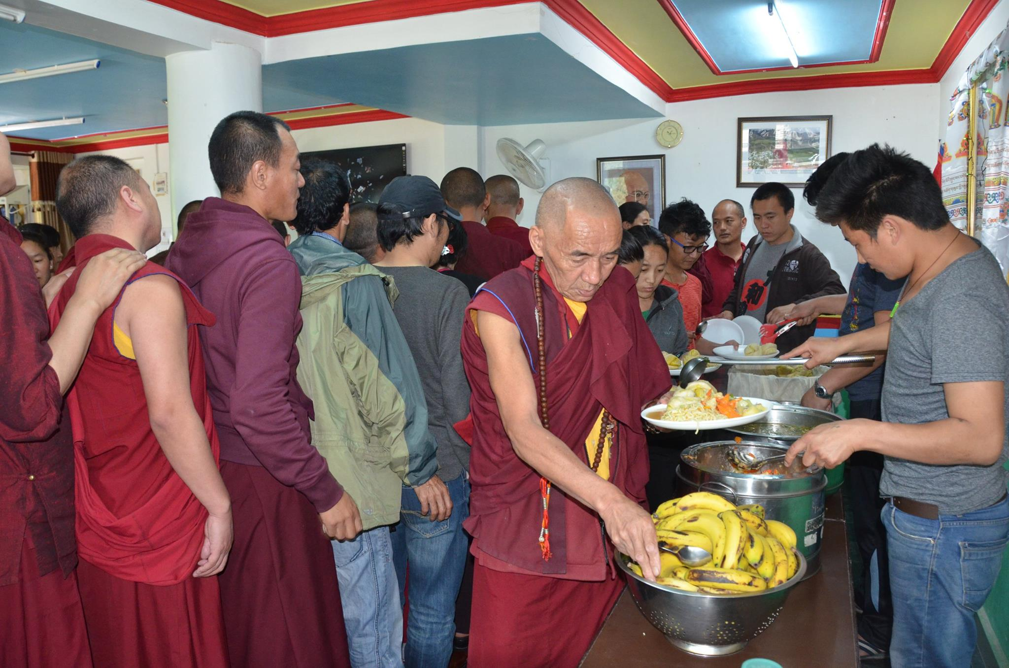 Lha Employee's serving food to the community